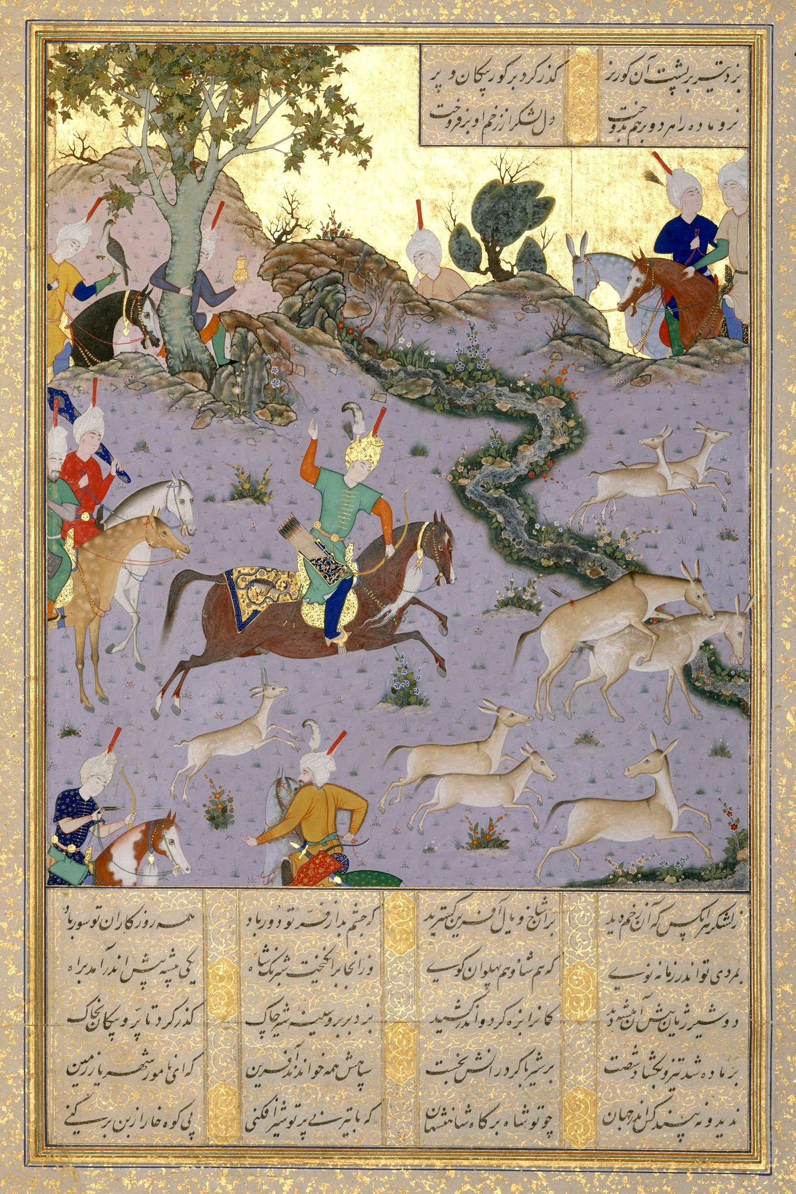 Mir Sayyid Ali, Bahram Gur Pins the Coupling Onagers, Folio from the Shahnama (Book of Kings) of Shah Tahmasp 1530-35, Metmuseum